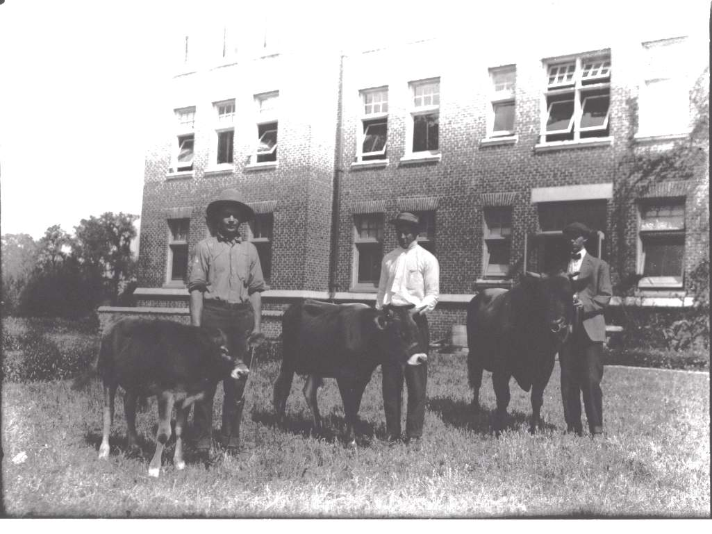 Floyd Hall at the University of Florida in 1915 - JM Scott photographer